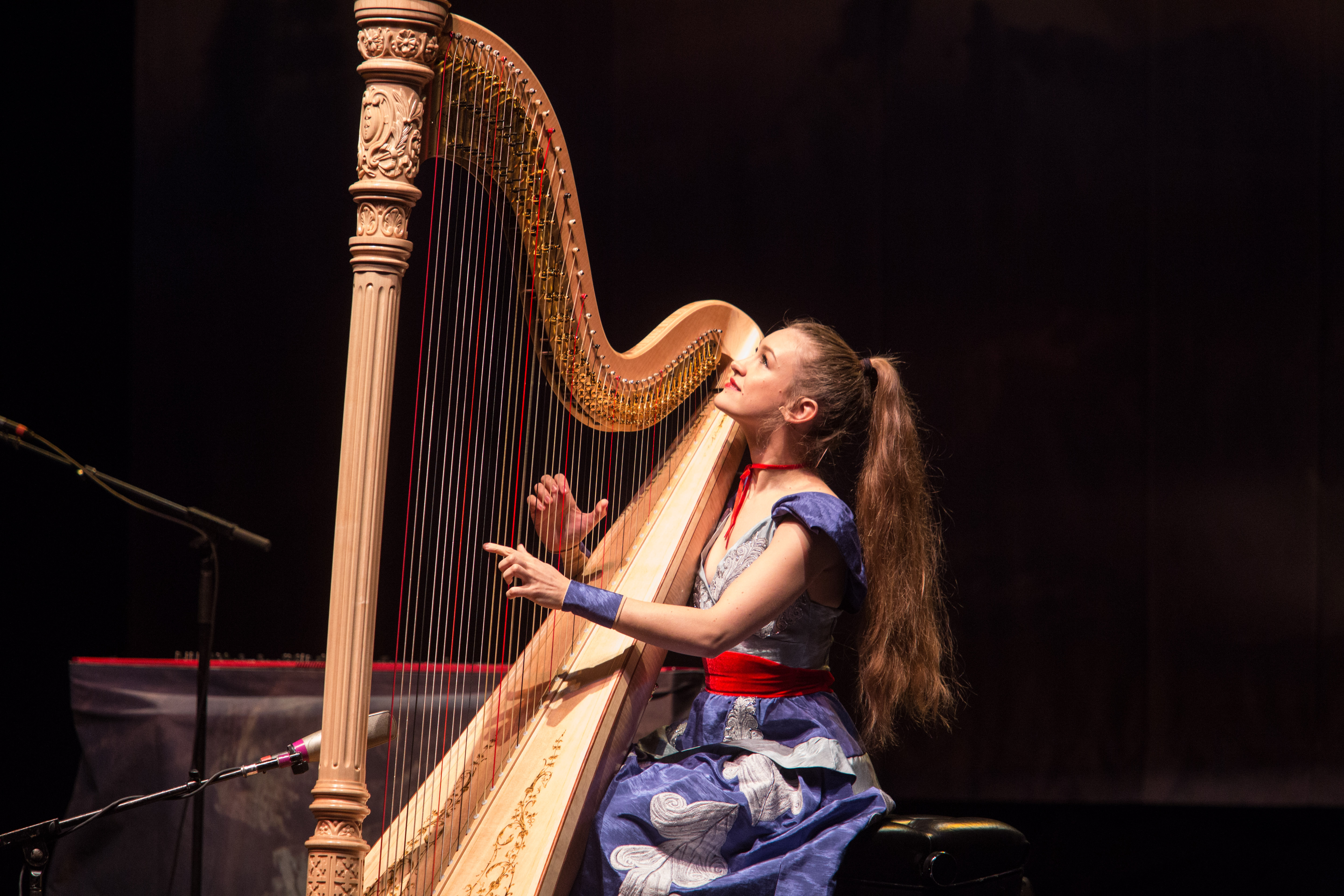 Joanna Newsom performs at the Orpheum Theatre, Boston, MA. 6 December 2015.